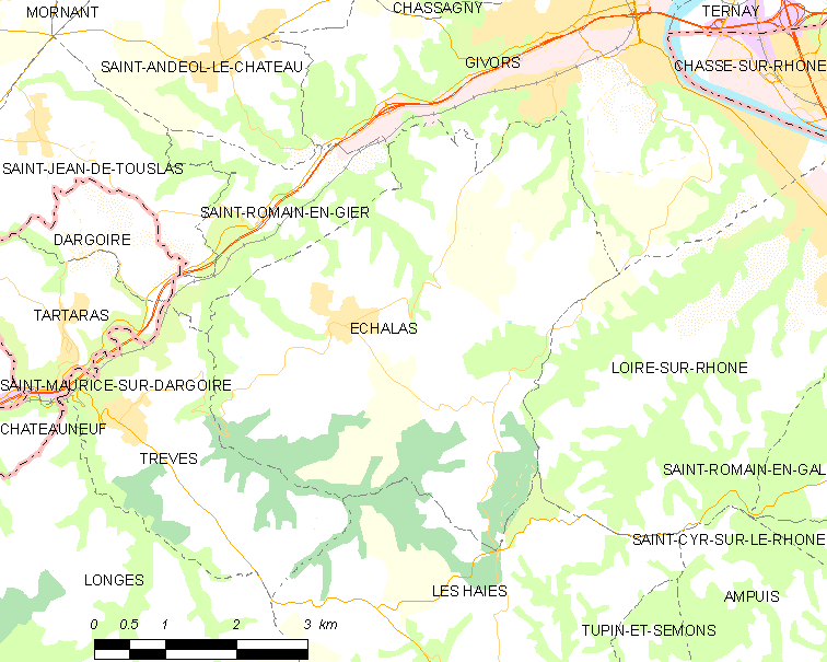 Map of French municipality